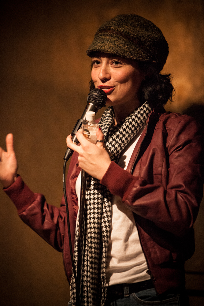 Melissa Villaseñor at The Secret Show, February 27, 2013, at Blind Barber, Culver City, California